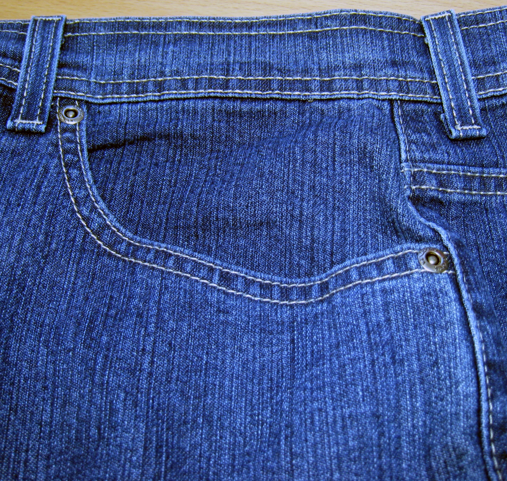 The front pocket on a pair of jeans.